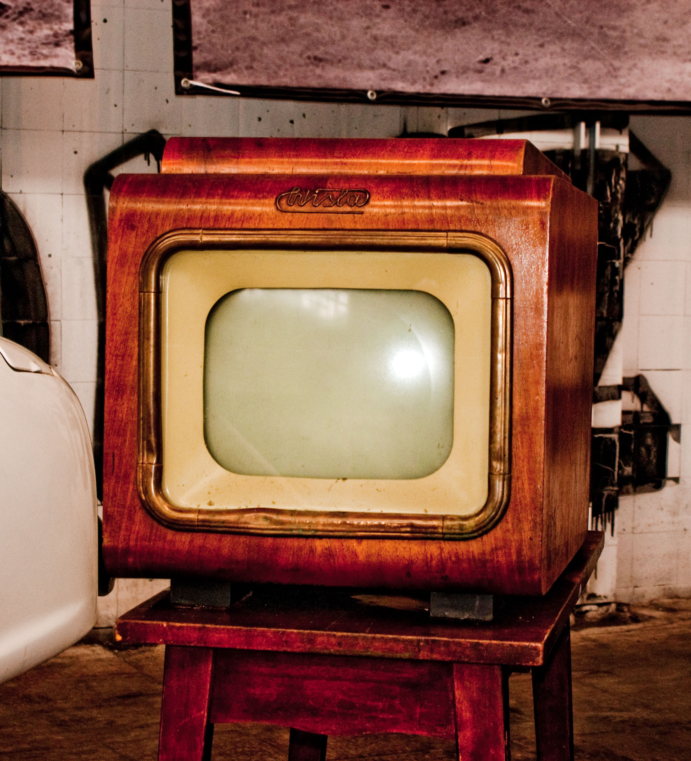 Old CRT TV set "Wisła" ("Vistula") made in Poland since 1955.